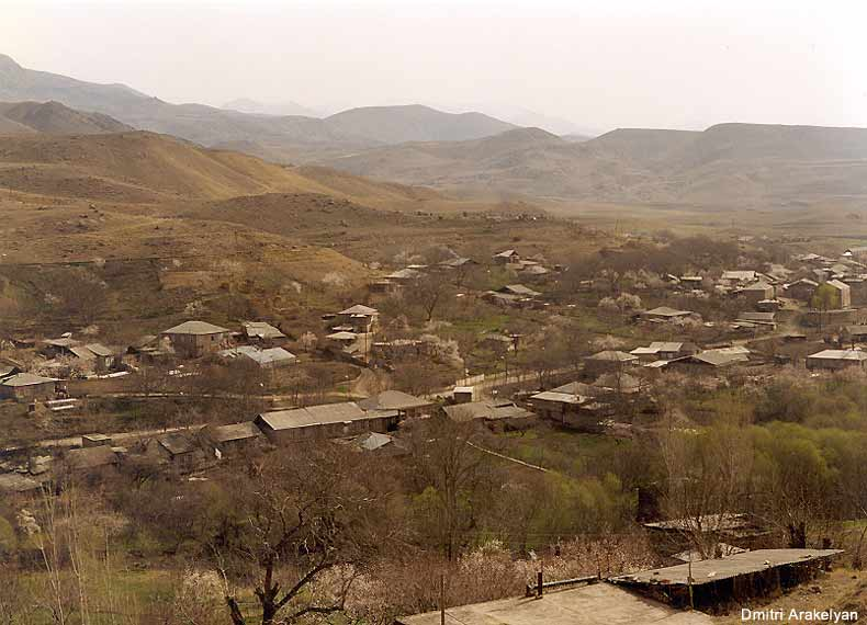 The village of Chiva, Armenia.